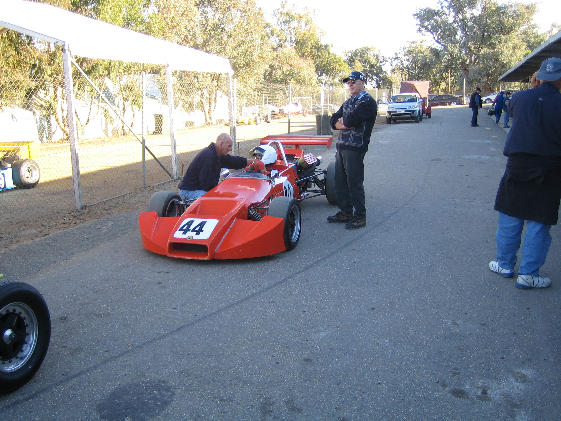 Mk 4 Cheetah